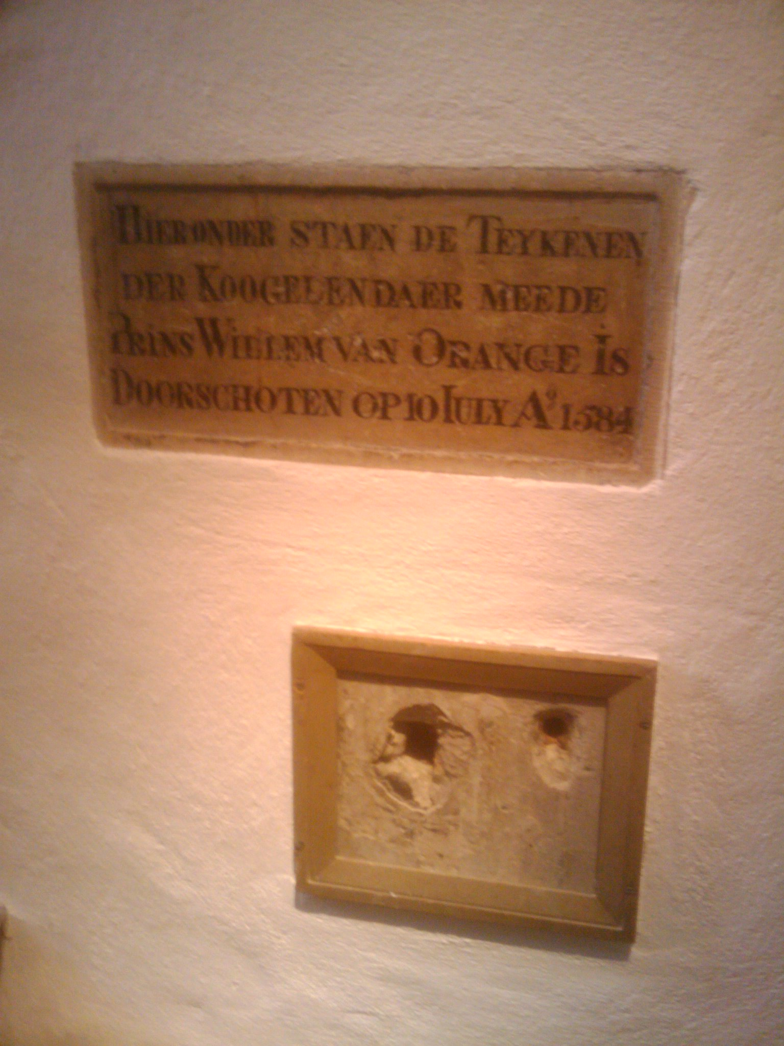 Bullet holes from the assassination of Prince William I of Orange-Nassau (William the Silent) at the Prinsenhof museum in Delft, The Netherlands.